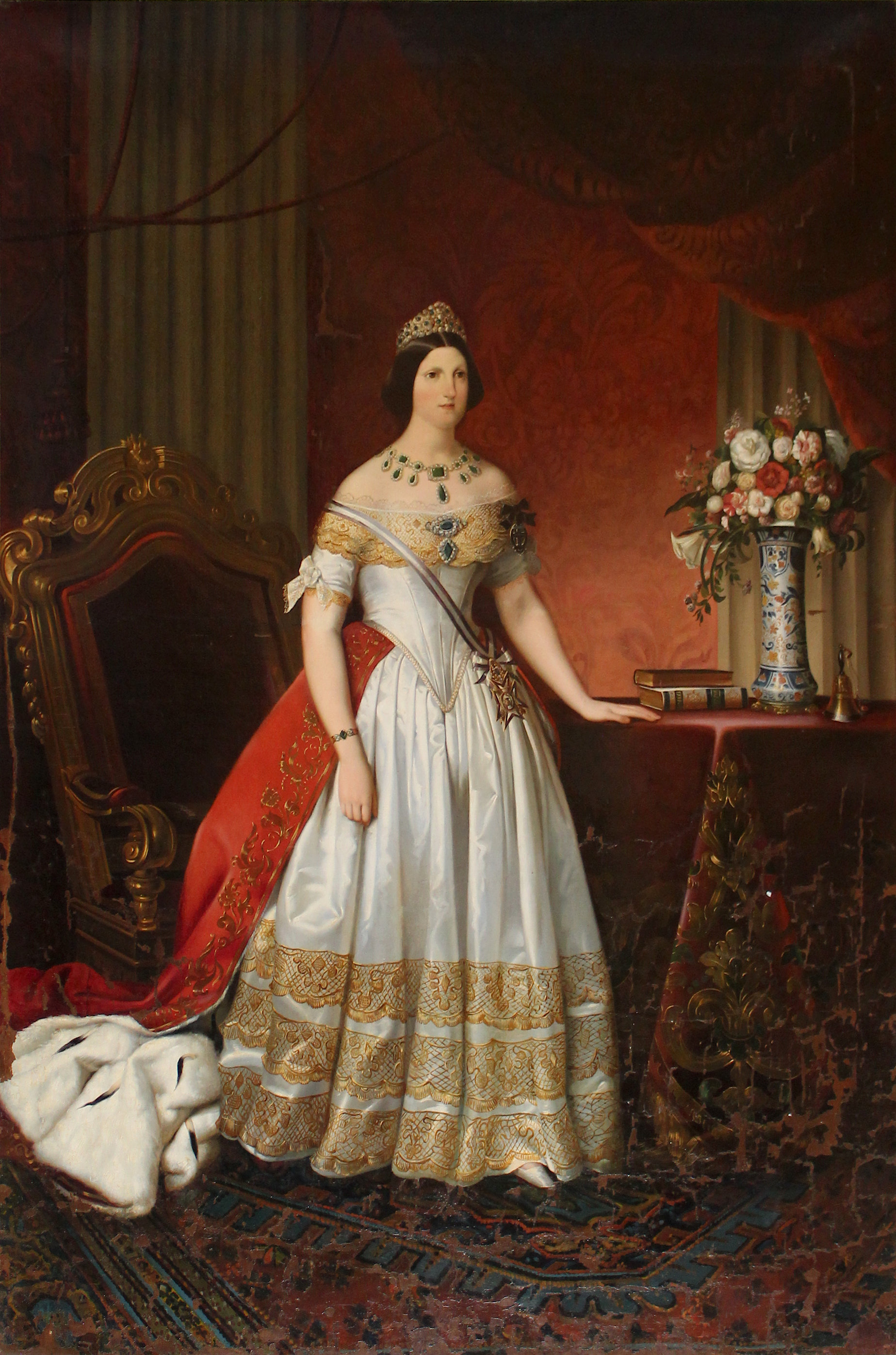 Maria Antonia of the Two Sicilies (1814-1898), Royal Princess of the Two Sicilies, Grand Duchess of Tuscany, consort of Leopold II of Habsburg-Lothringen, Grand Duke of Tuscany.